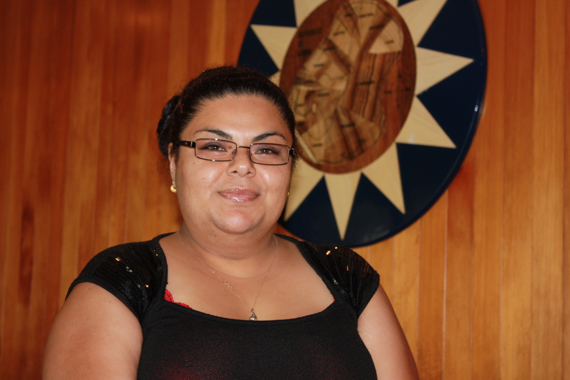 Barina Waga is the Principal Legal Officer with the Department of Justice and Border Control in Nauru, and a former AusAID scholarship recipient.